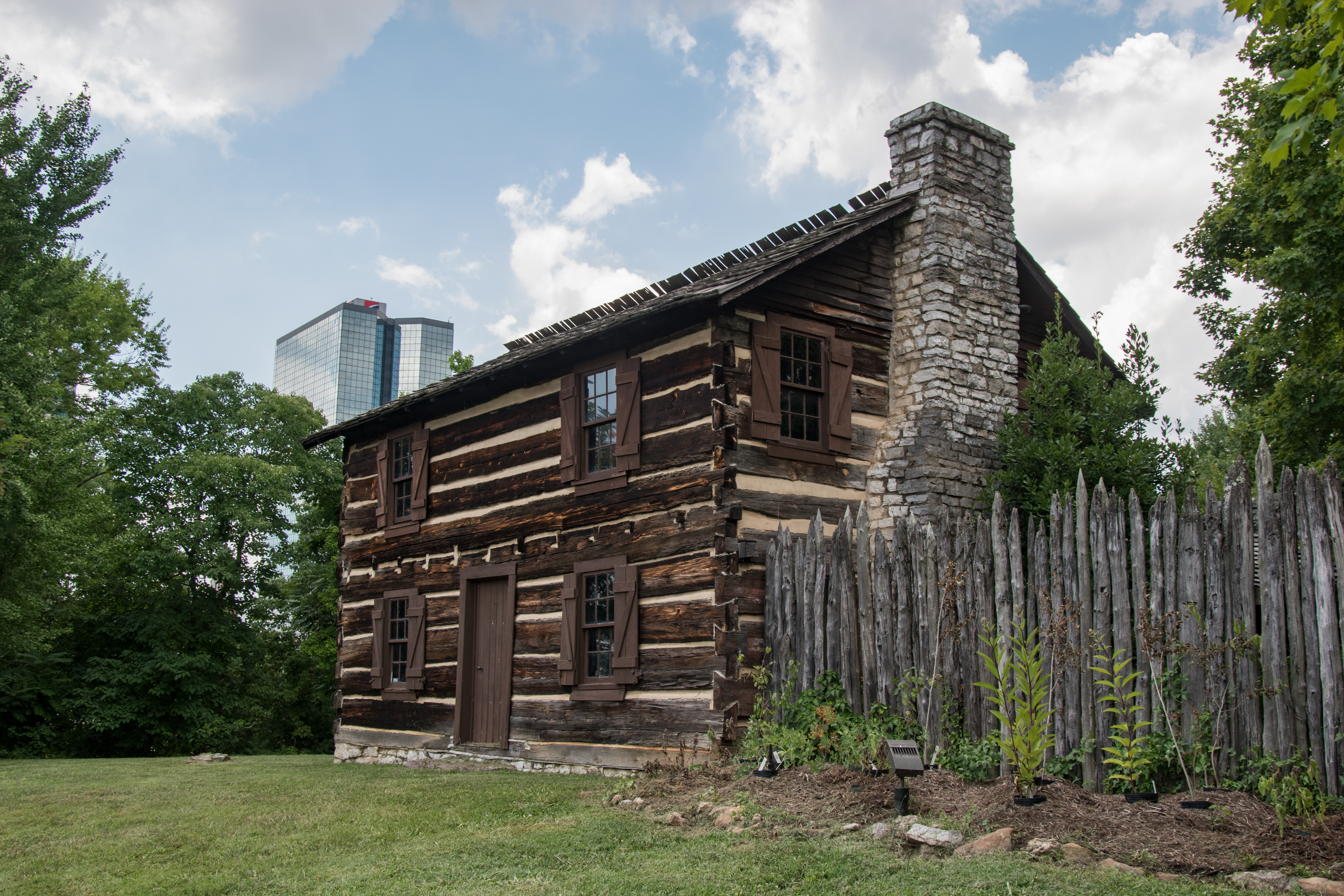 James White's Fort, Knoxville, Tennessee, July 9, 2019. Main house (SW corner).